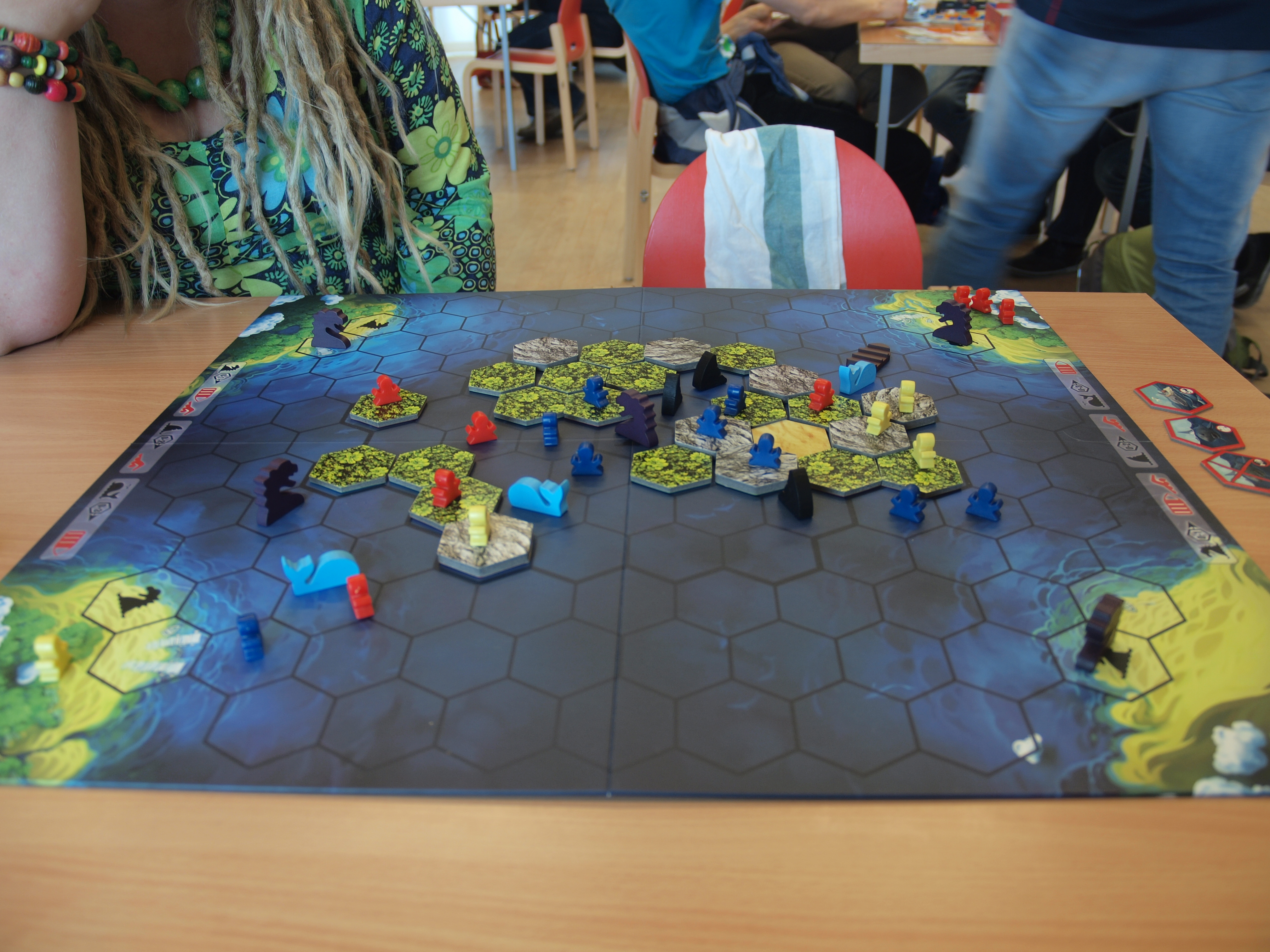 A game of Escape from Atlantis 30th Anniversary Edition being played at a board game day in Viikki, northern Helsinki, Uusimaa, Finland.